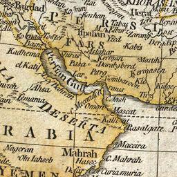 Persian Gulf in Samuel Dunn Wall Map of the World